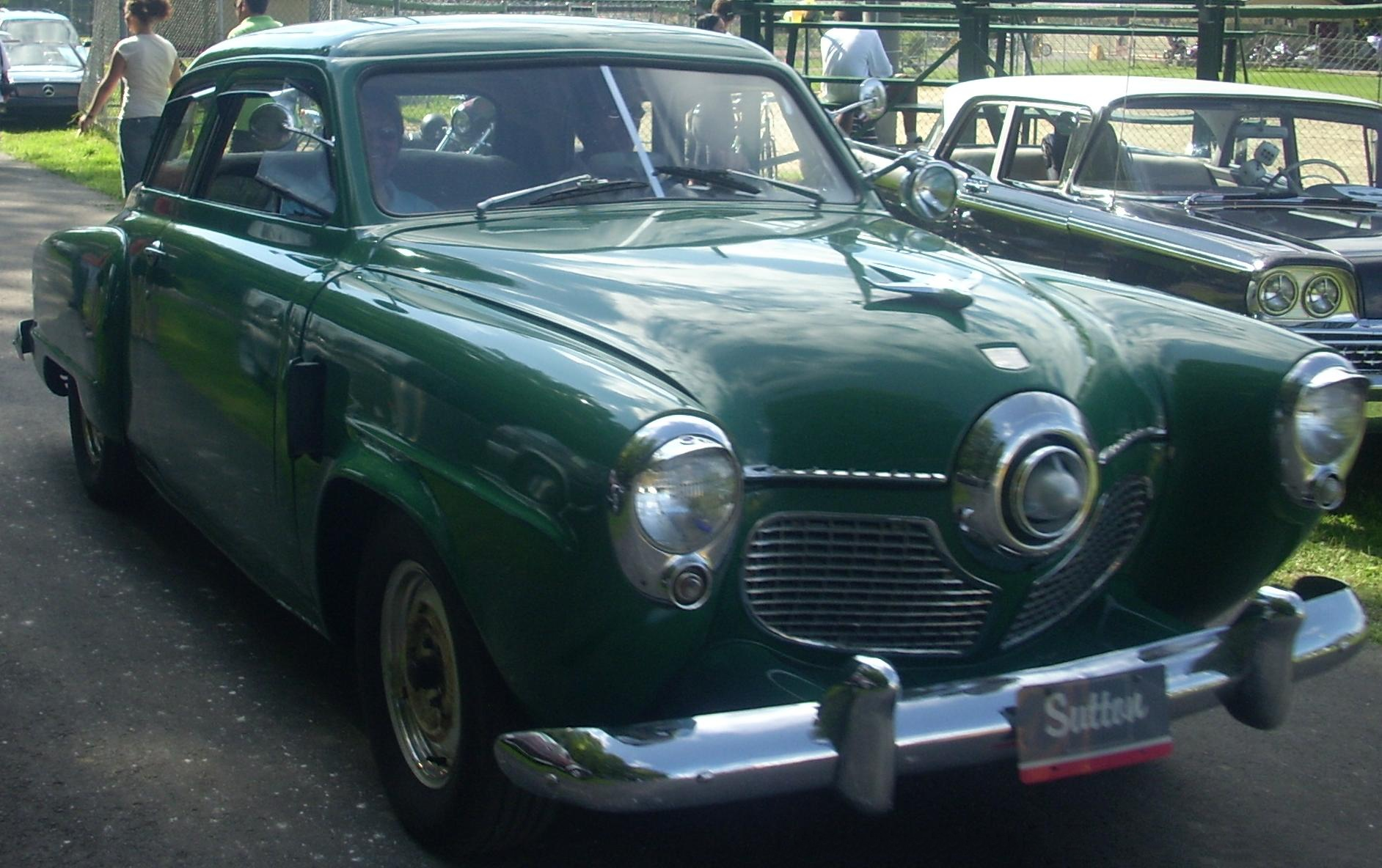 Studebaker Champion photographed at the Rassemblement Rigaud Car Show. It appears to be a 1951.